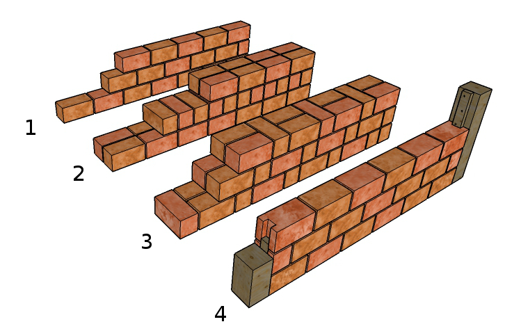 1. Alvenaria de meia vez. 2. Alvenaria de 1 vez. Aparelho inglês. 3. Alvenaria de 1 vez. aparelho flamengo. 4. Travamento com estrutura de madeira tipo gaiola pombalina